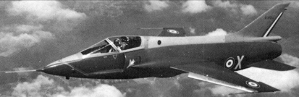 A Breguet 1001 Taon in flight. The Taon (en: Gadfly, but also an anagram of NATO or the French version OTAN) was designed to meet a 1953 NATO requirement. It was a small mid-wing monoplane with swept wings and tail surfaces and retractable tricycle undercarriage, powered by a Bristol Orpheus BOr.3 turbojet. The company was contracted to build three prototypes, the first aircraft flying on the 26 July 1957. The second aircraft incorporated improvements and had a slightly longer fuselage. Development was discontinued and only two aircraft were built due to unsatisfacoty performance.